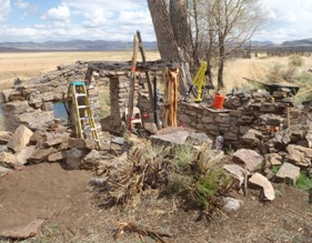 Archeological work goes on at the Fort Ruby site in White Pine County, Nevada. This fort was established to protect the Pony Express and overland stagecoaches, and is a National Historic Landmark.